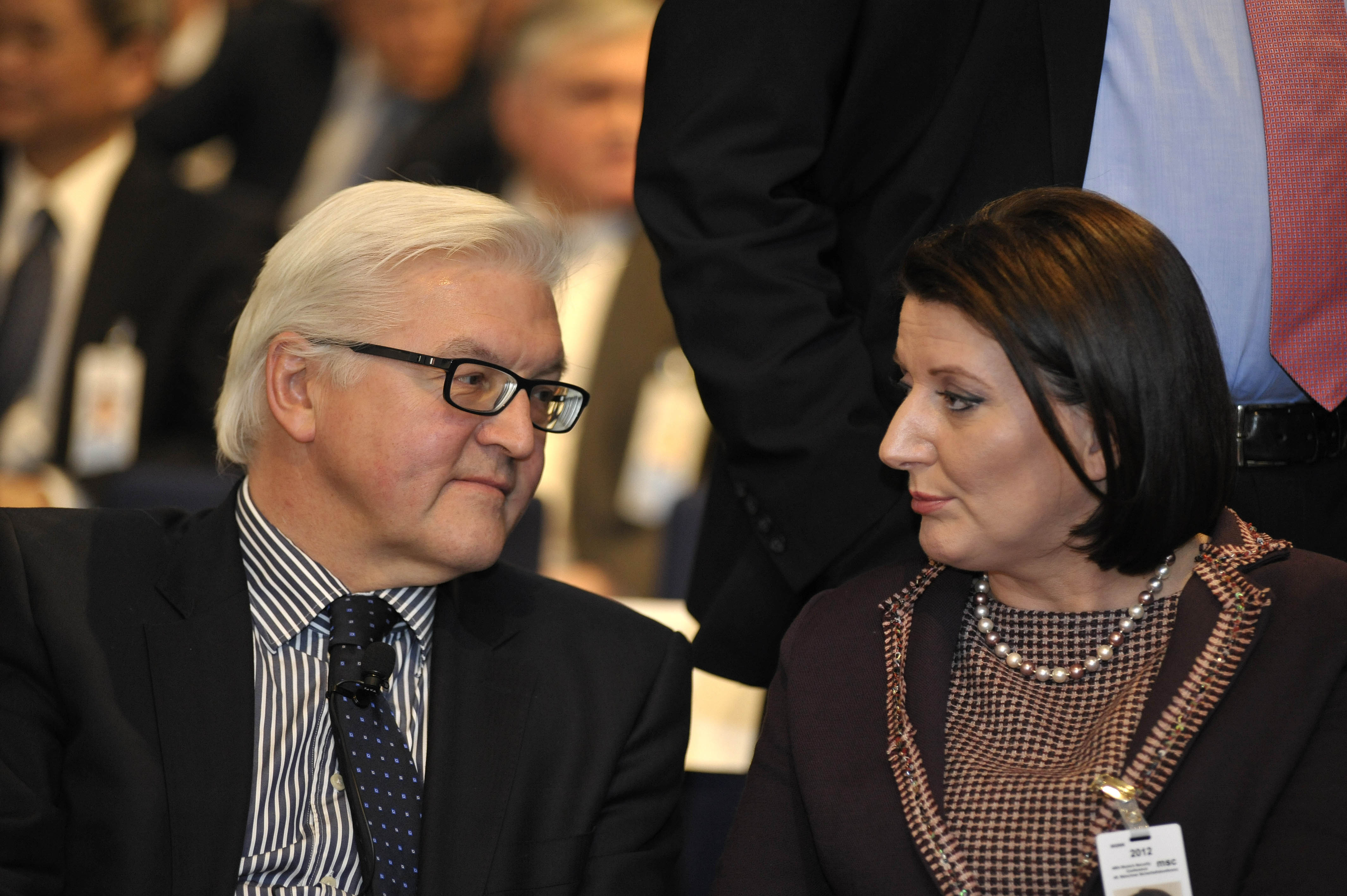 48th Munich Security Conference 2012: Dr. Frank-Walter Steinmeier (le), Chairman of the SPD Parliamentarygroup, Germany, in Conversation with Atifete Jahjaga (ri), President, Republic of Kosovo.